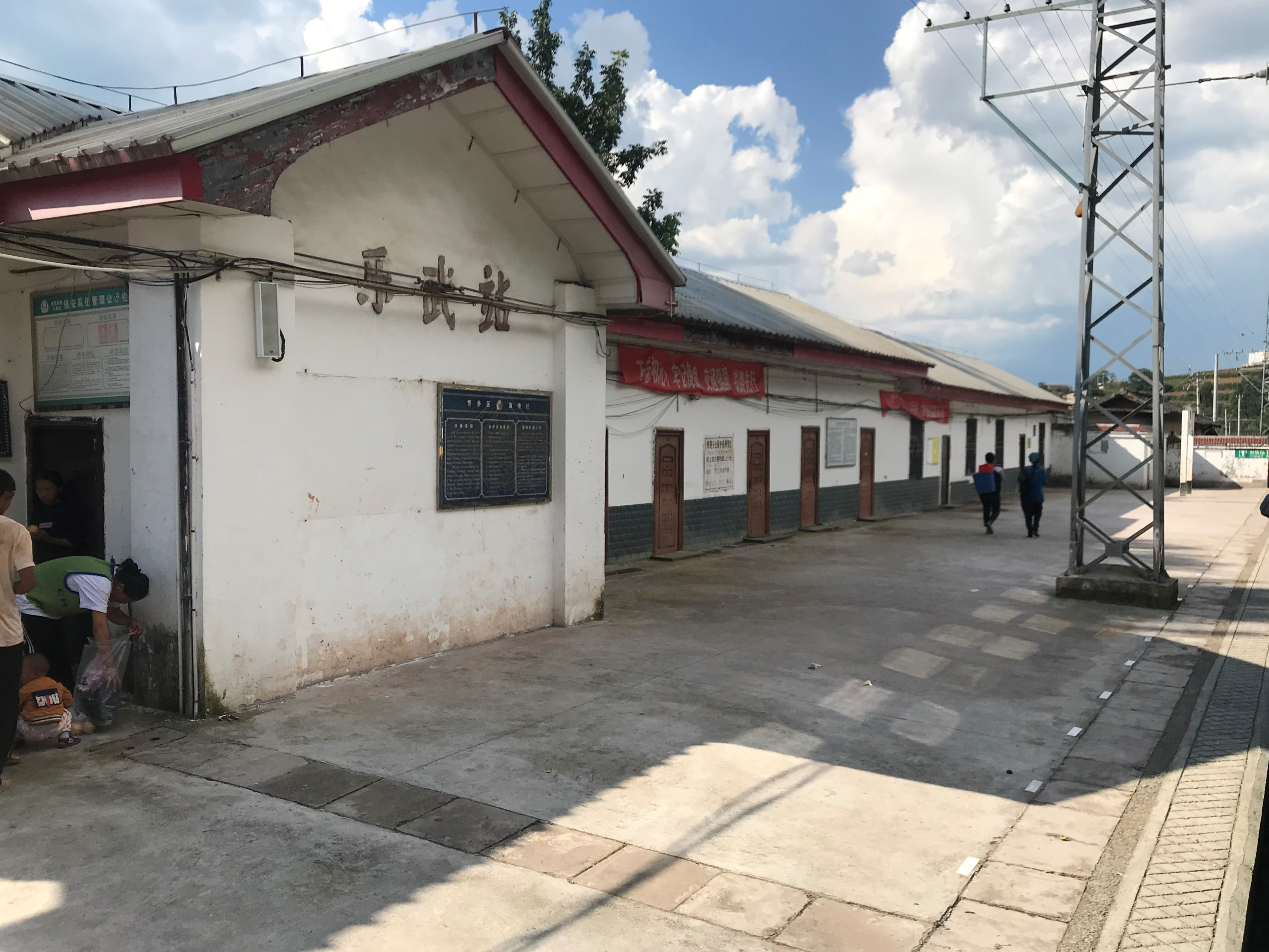 201908 Station Building of Lewu (1)